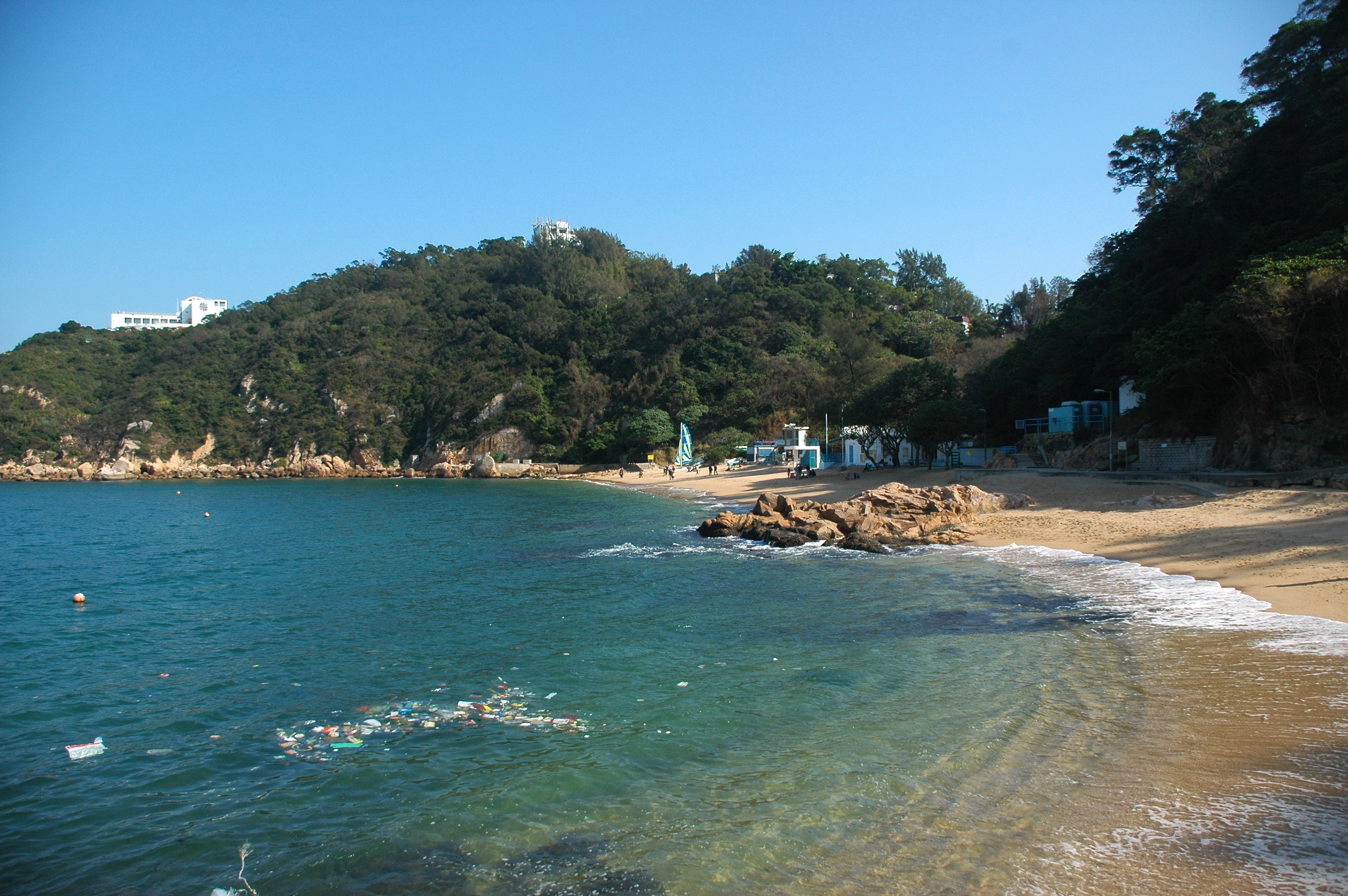 Kwun Yam Wan, Cheung Chau, Hong Kong.